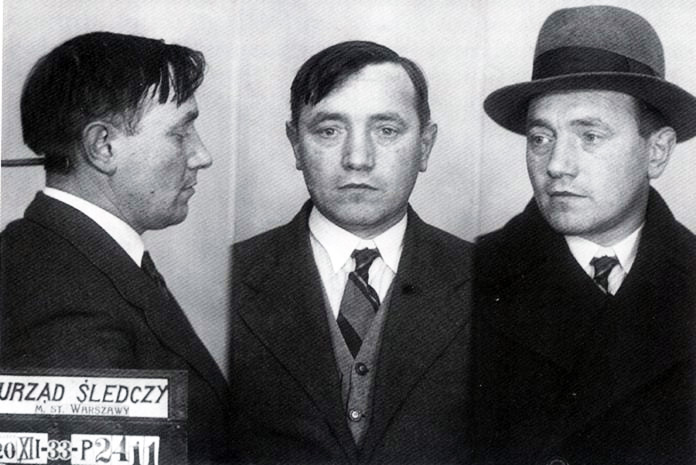 Bolesław Bierut (1892-1956) - activist in the Communist Party of Poland and later a Polish communist leader of Stalinist orientation. President of the State National Council (KRN) 1944–1947, President of Poland 1947–1952, General Secretary of the Central Committee of the Polish United Workers' Party (PZPR) 1948–1956, Prime Minister of Poland 1952–1954. Mug hot made by Polish Police after arrest 1933